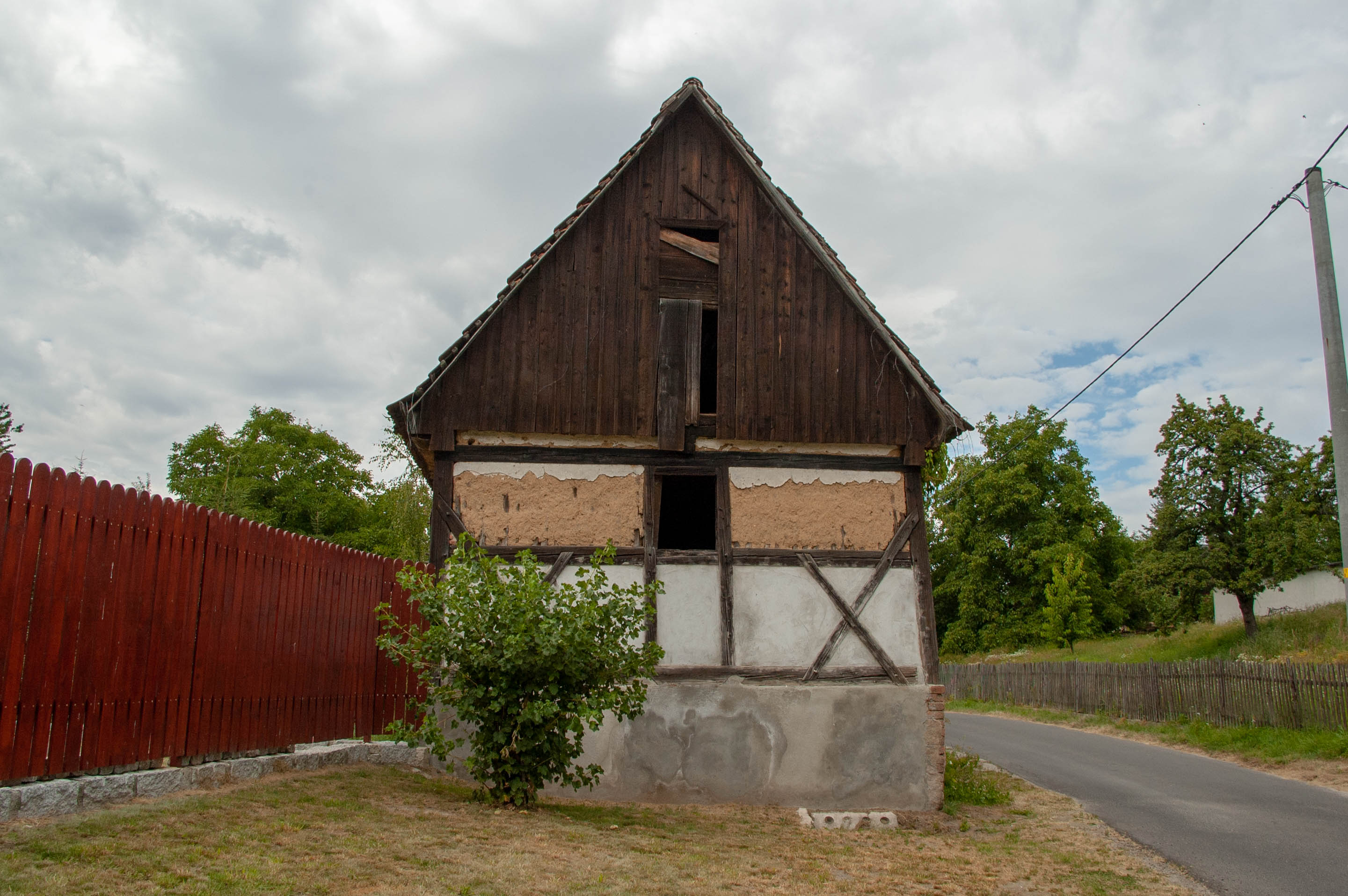 This photograph was created as a part of Wikiexpedition Lower Silesia, a project supported by Wikimedia Poland grant.